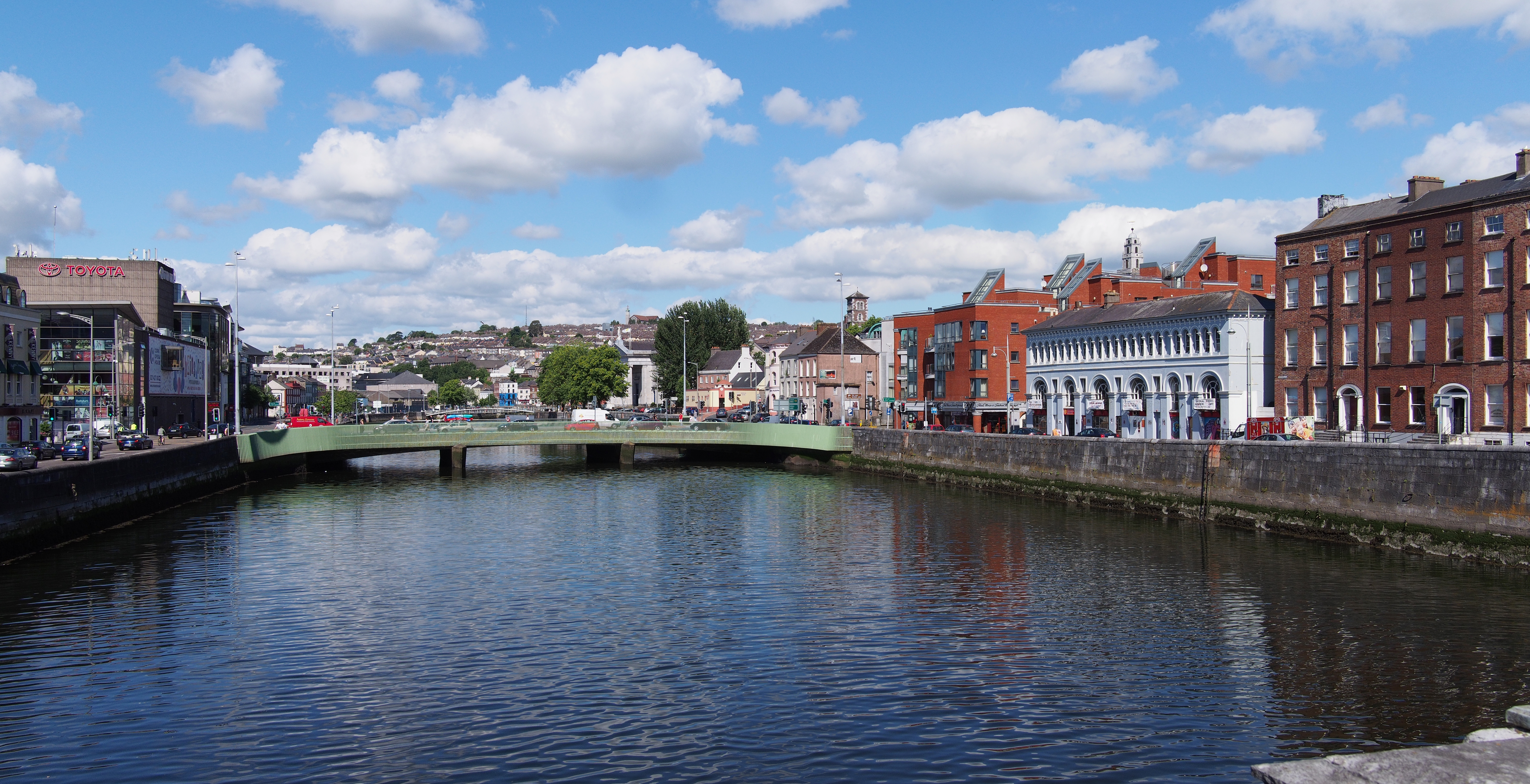 The nothern course of the River Lee at Cork, Ireland